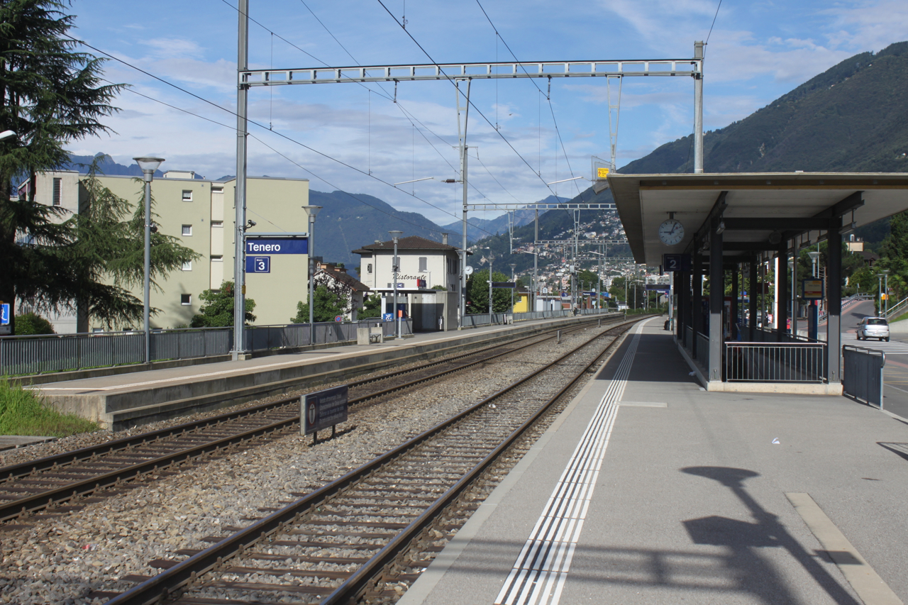 Tenero train station.